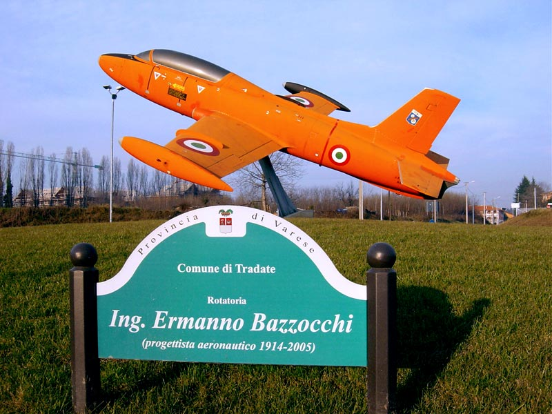 Aermacchi MB 326 in honour of Ermanno Bazzocchi at Tradate, Varese (Italy)